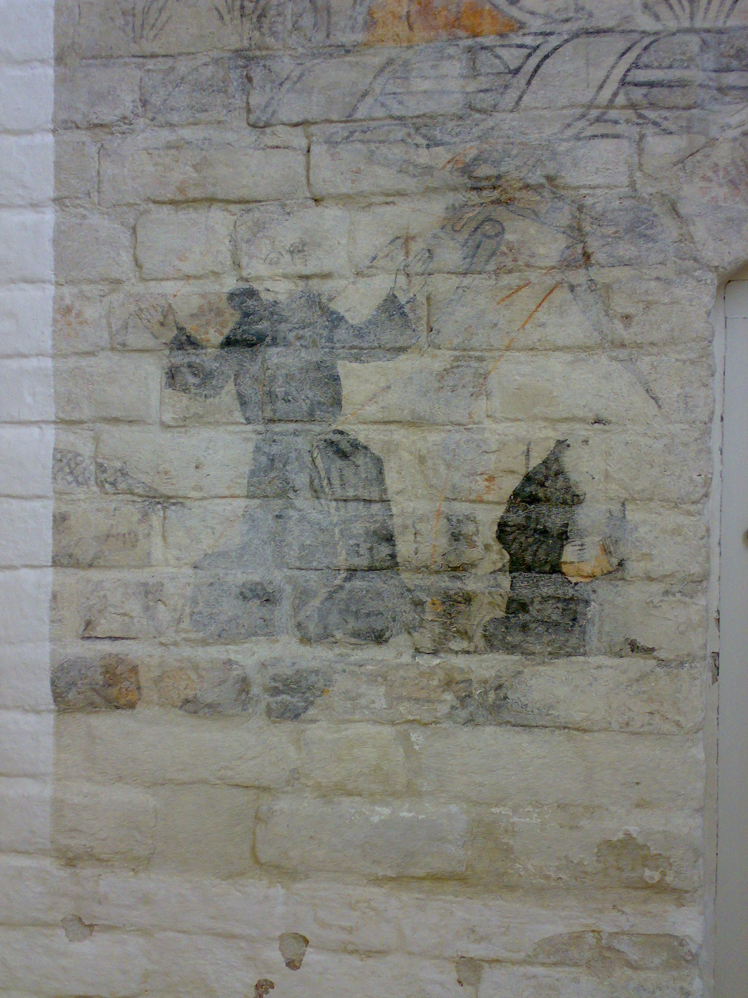 Frans of Assisi